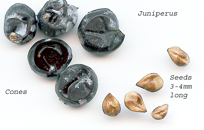 Self made scan of the cones and seeds of a Juniper taken March 2008.